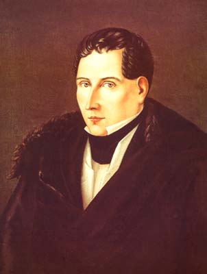 Diego Portales Palazuelos (*1793 - †1837). Oleo sobre tela. 79 x 60 cm.